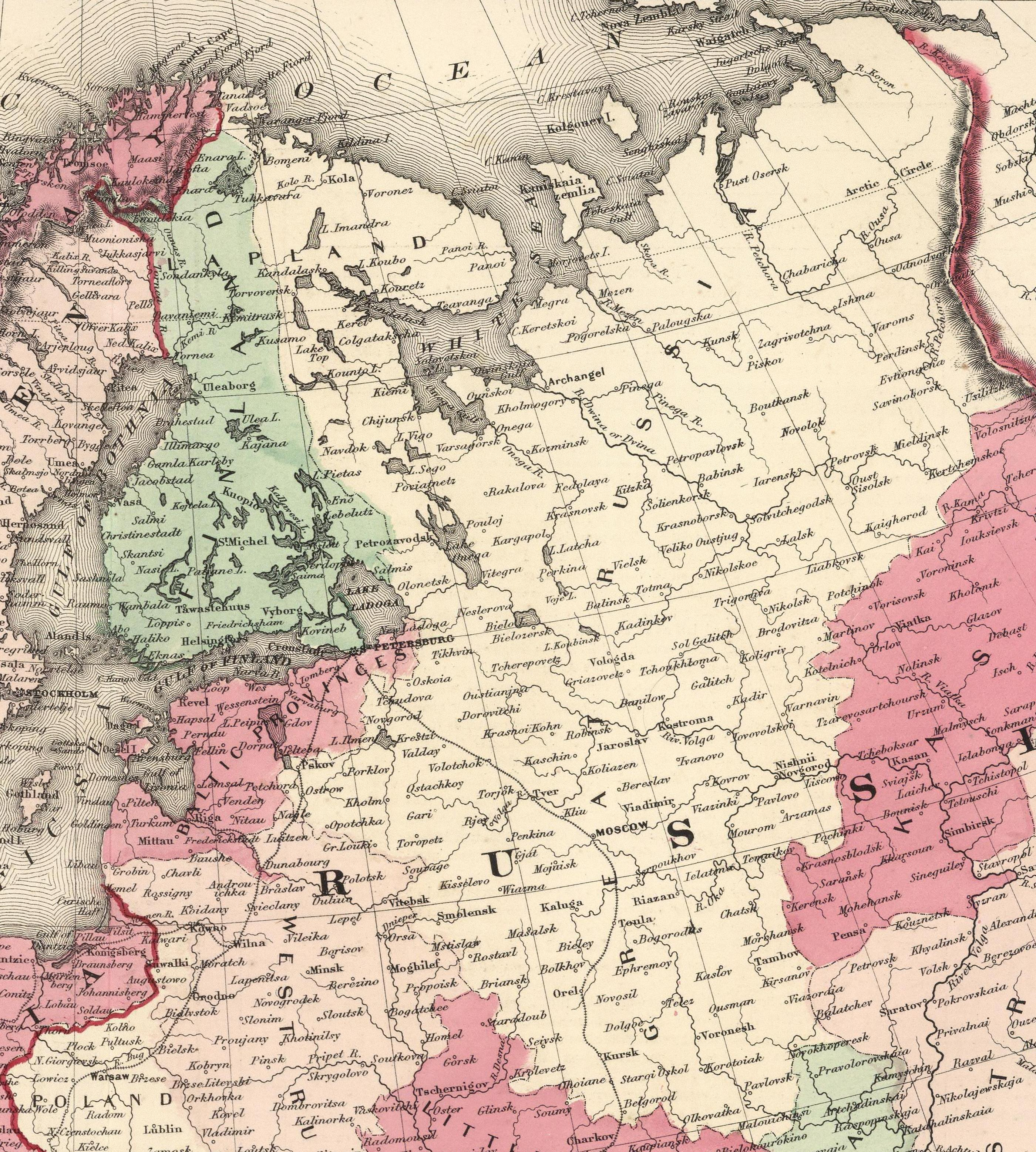 Johnson's Europe Published By Johnson And Ward. Pub Title: Johnson's New Illustrated (Steel Plate) Family Atlas, With Physical Geography, And With Descriptions Geographical, Statistical, And Historical ... By Richard Swainson Fisher, M.D. ... Maps Compiled, Drawn, And Engraved Under The Supervision Of J.H. Colton And A.J. Johnson. New York: Johnson And Ward, Successors To Johnson And Browning (Successors To J.H. Colton And Company,) No. 113 Fulton Street. 1865. Entered ... One Thousand Eight Hundred and Sixty-four, by A.J. Johnson ... New York. Note: In full color. Shows, among others, the Russian states of Little Russia, West Russia, South Russia, Kasan, and Astrachan. Relief shown by hachures. Meridians Greenwich and Washington D.C.